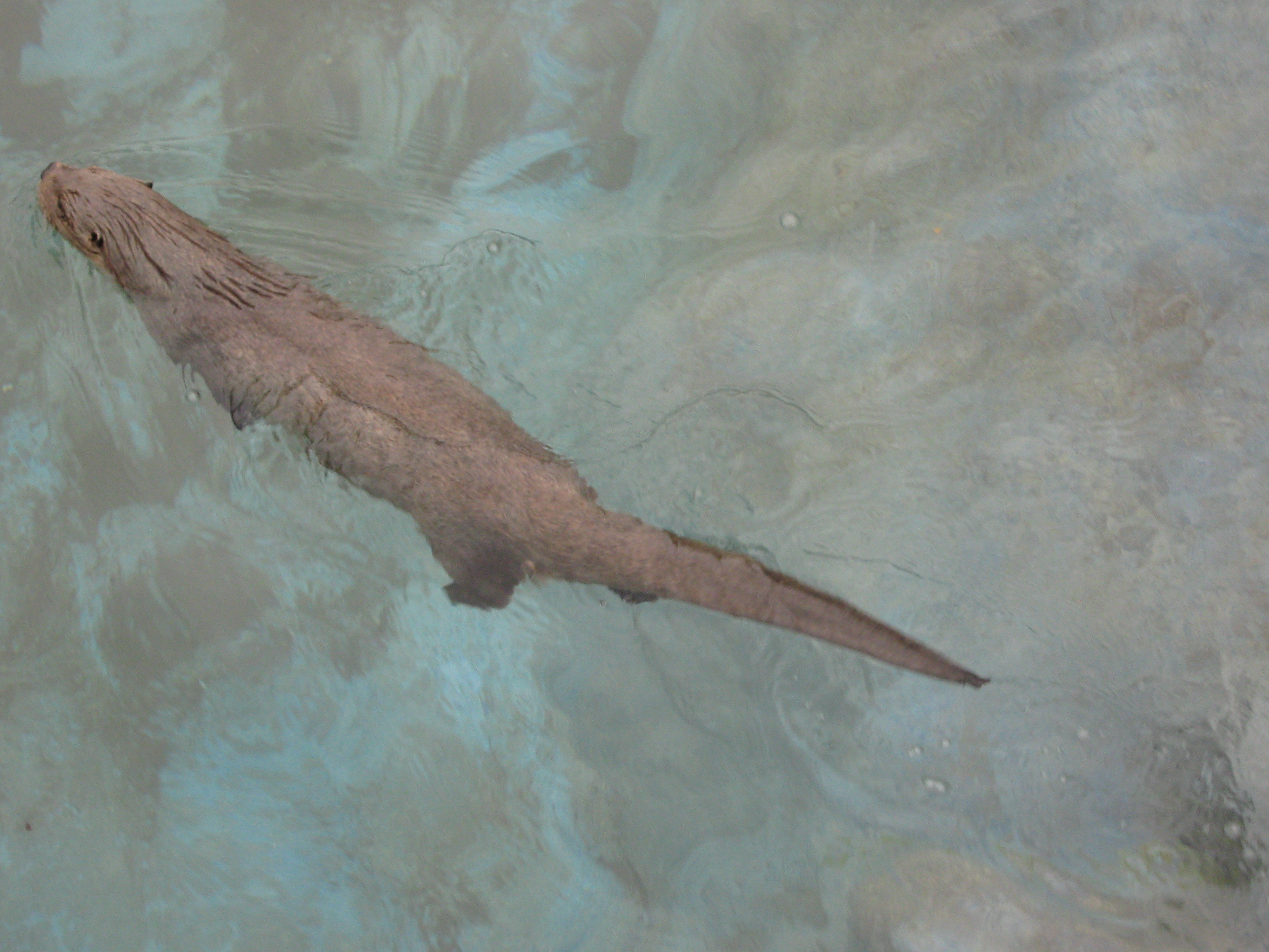 Marine otter (Lontra felina) at Huachipa Zoo in Lima, Peru.